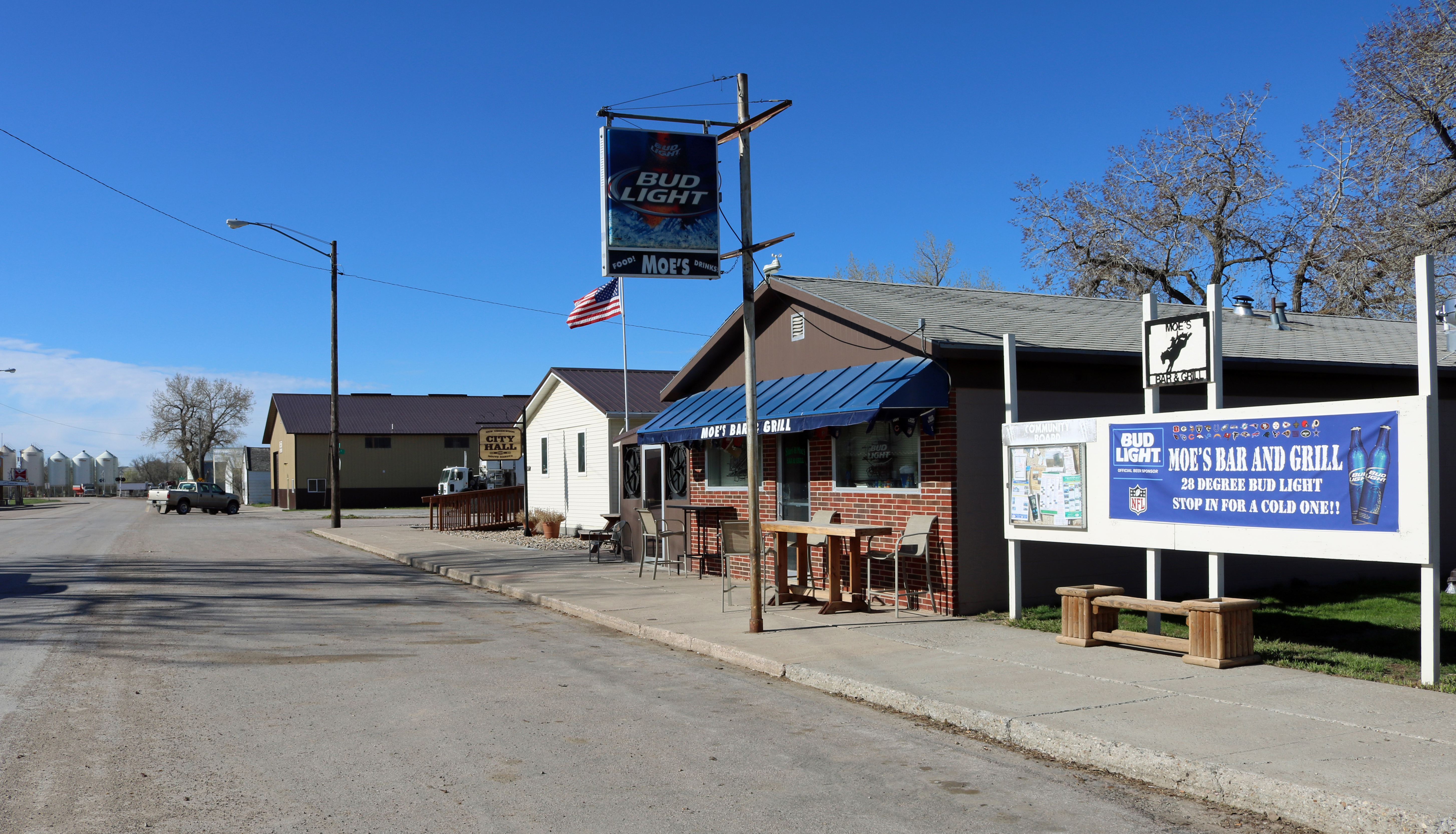 Moe's Bar and Grill and City Hall in the 400 block of "A" Avenue in New Underwood, South Dakota.